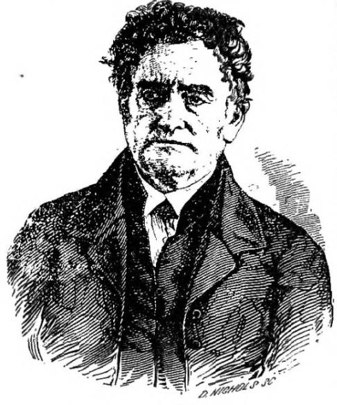 Gilbert Ogden Fowler, a prominent citizen of Newburgh, New York, in the early 19th century.